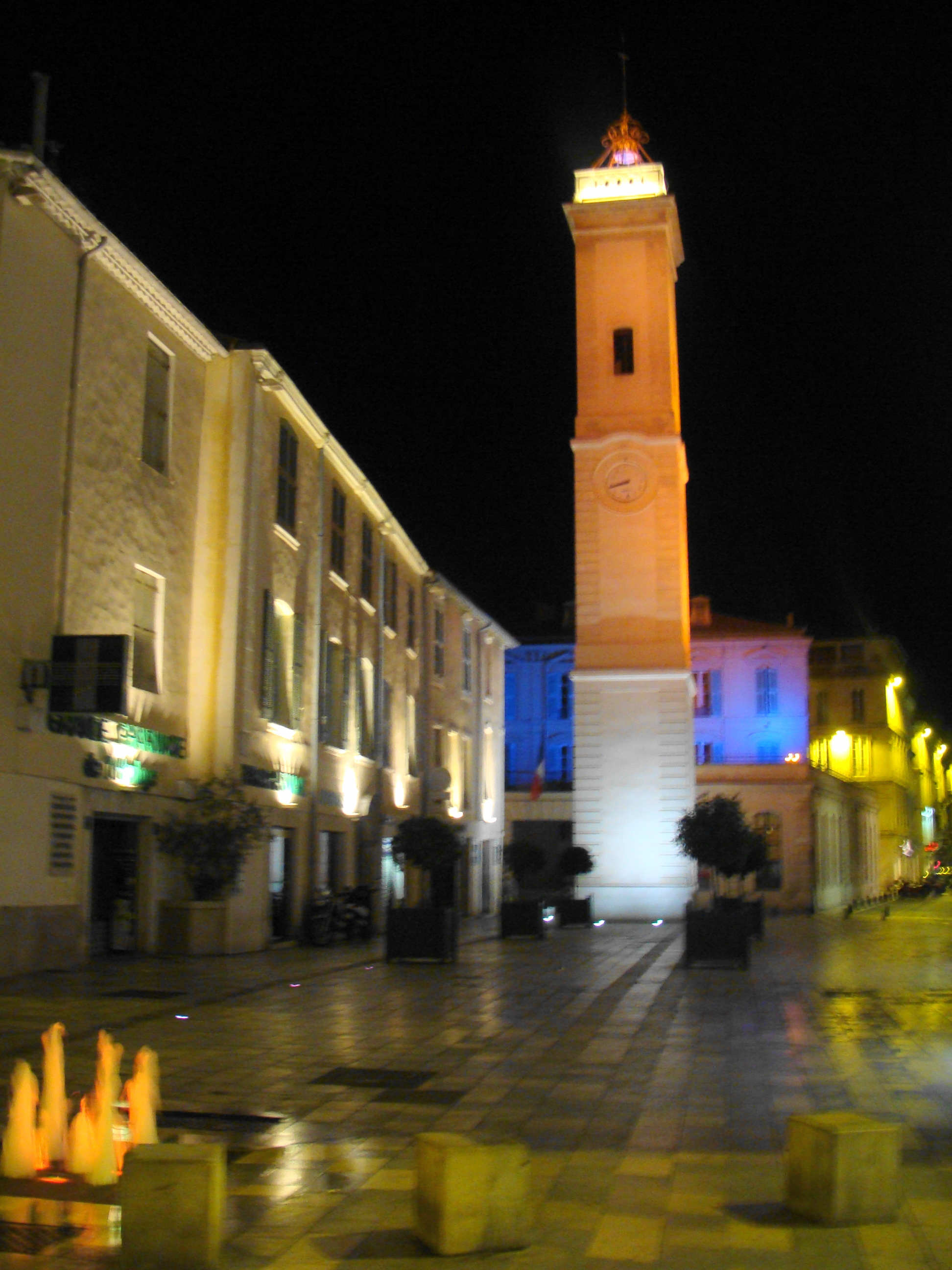 Nîmes - Clock Tower (15th century)